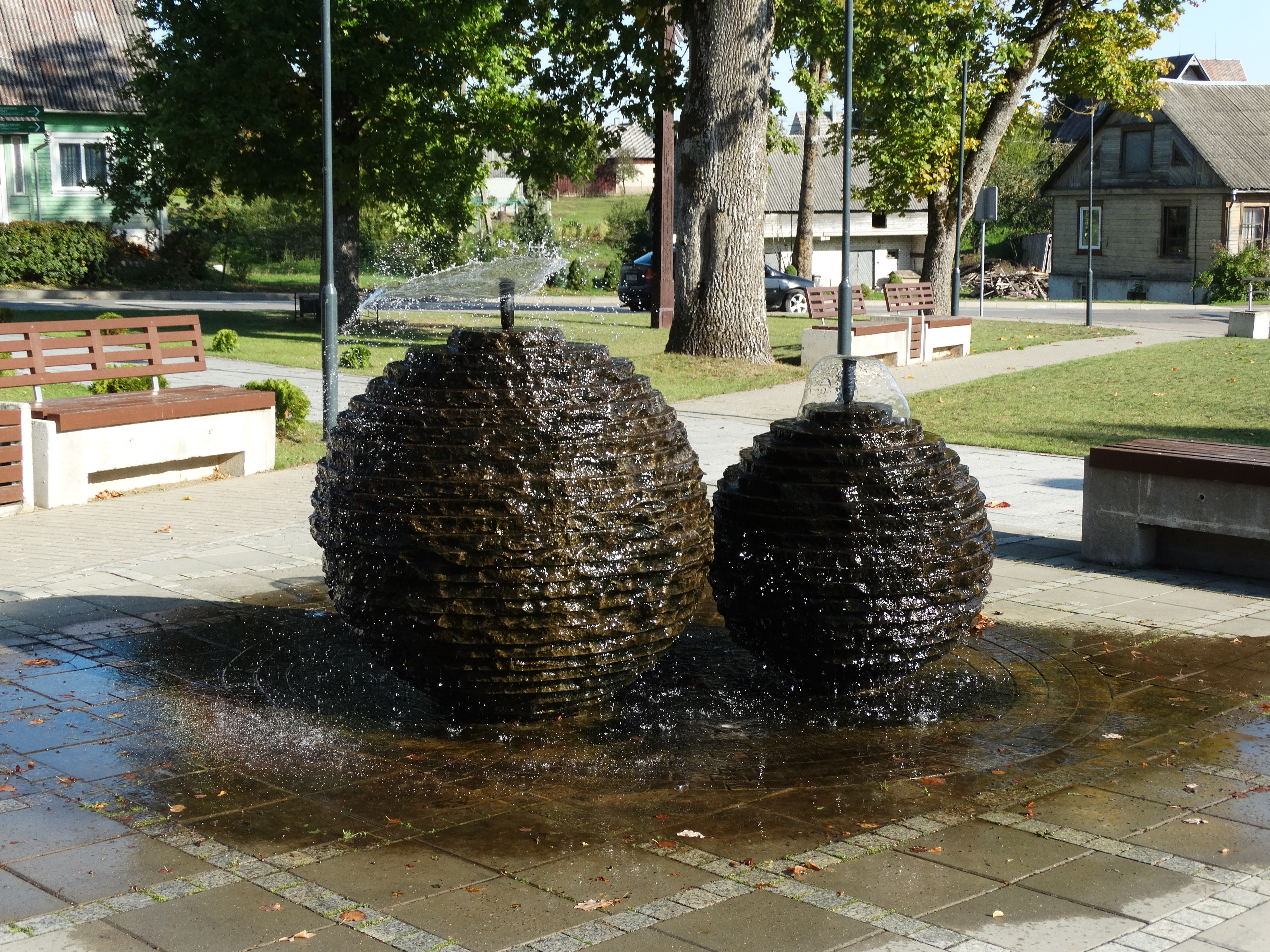 Viduklė, balls of fountains, Raseiniai district, Lithuania